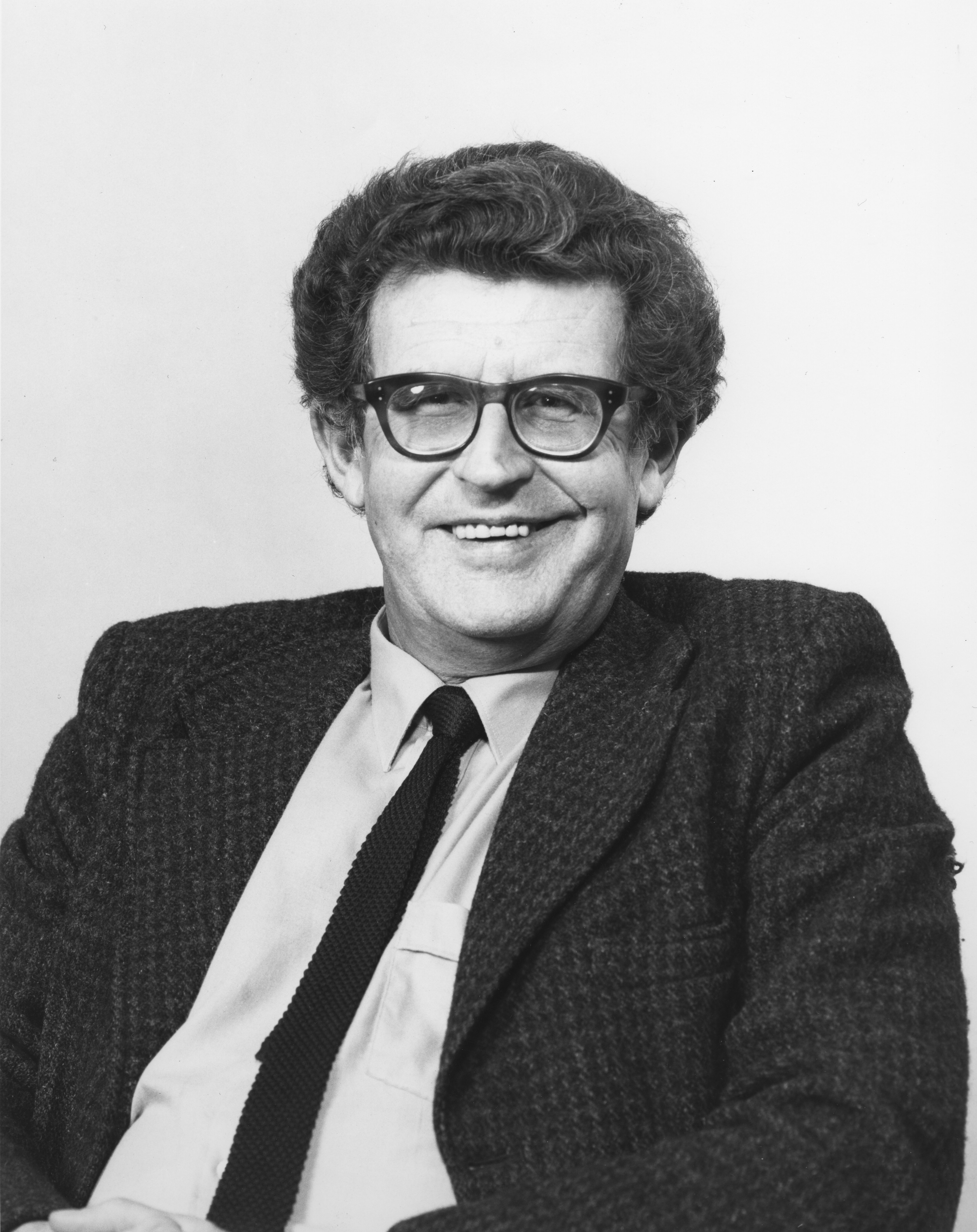 Professor, Department of Government Information from LSE Magazine November 1984 No68 p.4 (Professorial Appointments) The title of Professor of Political Science has been conferred on Kenneth Minogue who has been Reader in Political Science since 1971. Born in New Zealand, and educated mostly in Australia, he came to the School as an evening student in 1952. On graduation in 1955 he spent a year teaching at the then University College, Exeter, and returned to the School in 1956. He hasn’t moved since. IMAGELIBRARY/996 Persistent URL